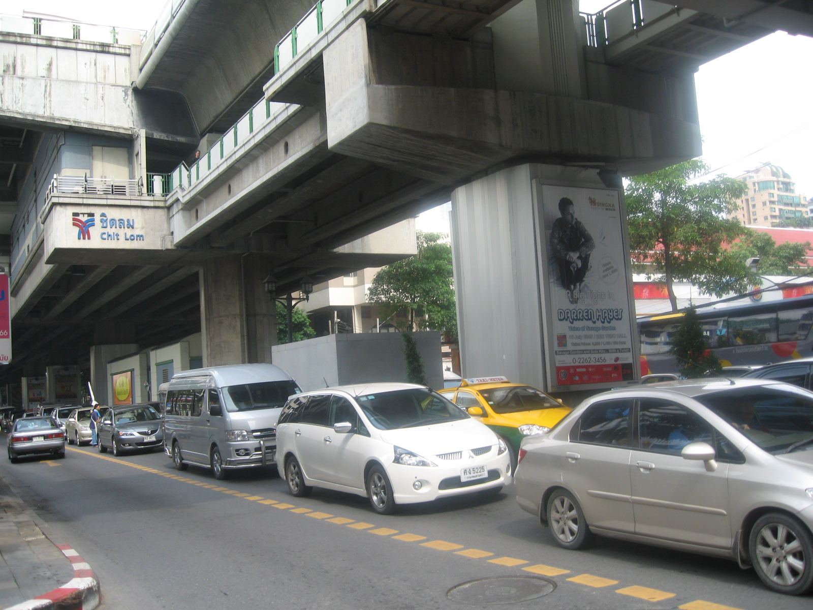 BTS Chit Lom Station (Bangkok Skytrain). Taken by Terence Ong in June 2006.